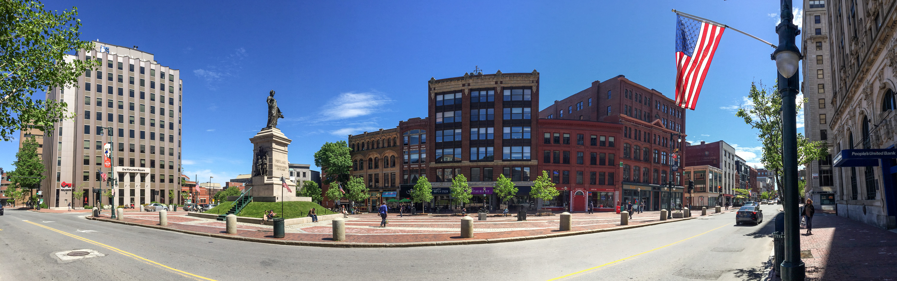 Monument Square panorama, Portland Maine